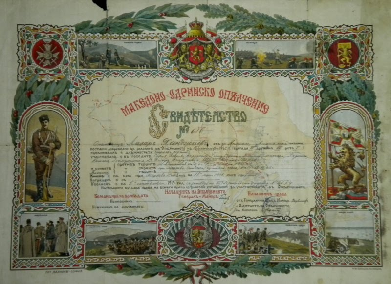 Certificate for service in the Macedonian-Adrianopolitan Volunteer Corps of Lazar Handzheiv.